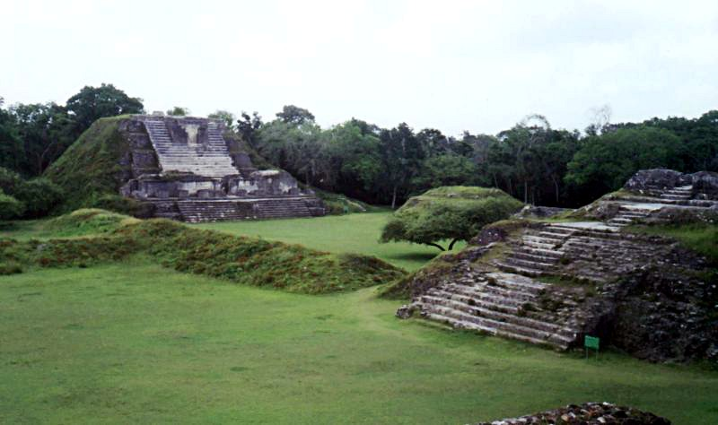 Altun Ha archaeological site, Belize.